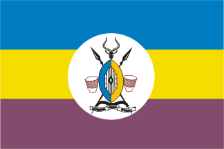 Busoga, ceremonial flag